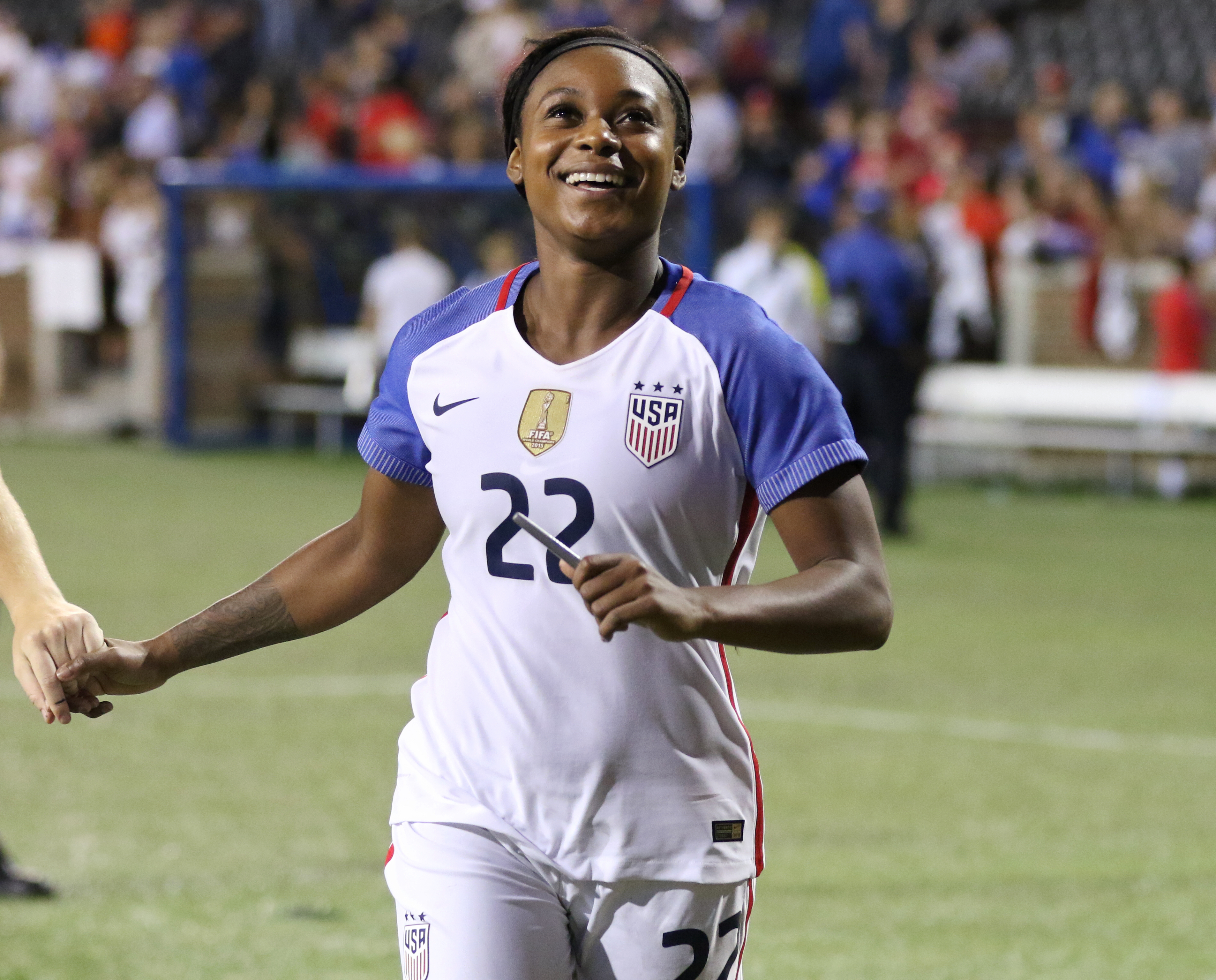 TaylorSmith